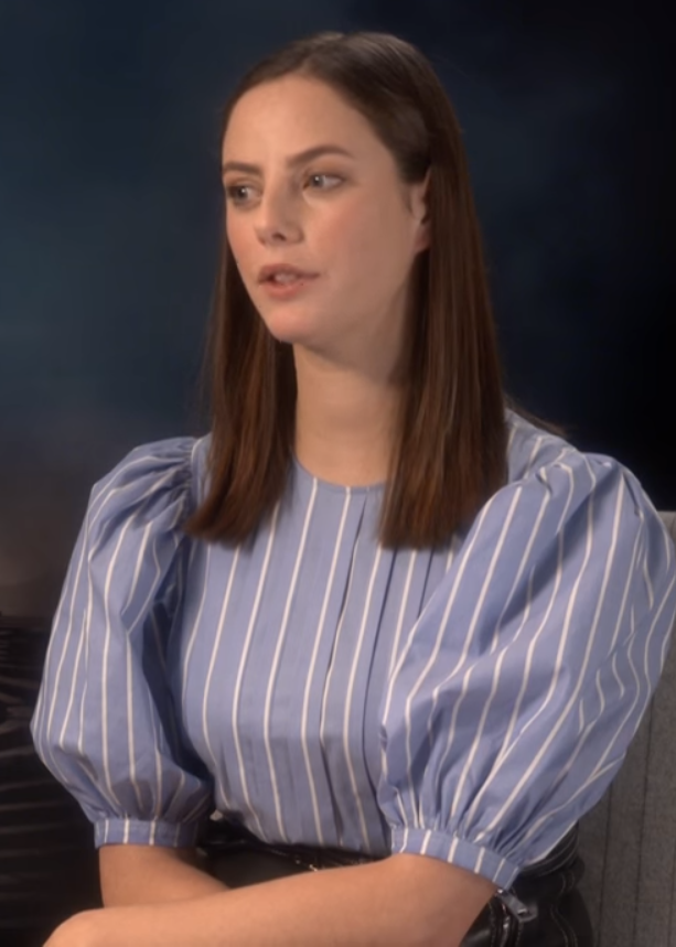 Dylan O’Brien, Kaya Scodelario, Thomas Brodie-Sangster and director Wes Ball reveal their funniest memories from filming, and the very special wrap gifts that they bought each other to celebrate the franchise finale.